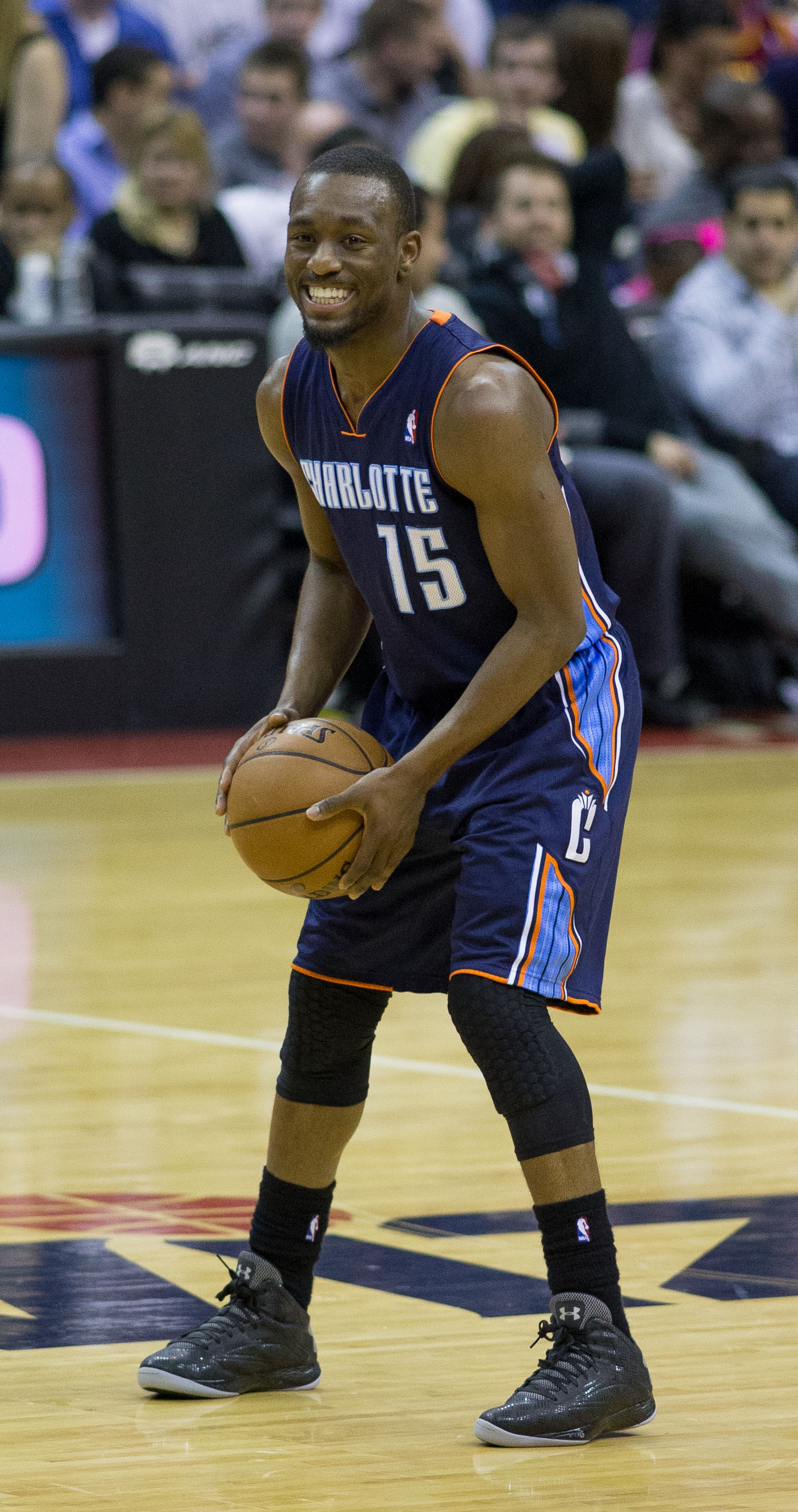 Charlotte Bobcats at Washington Wizards March 9, 2013